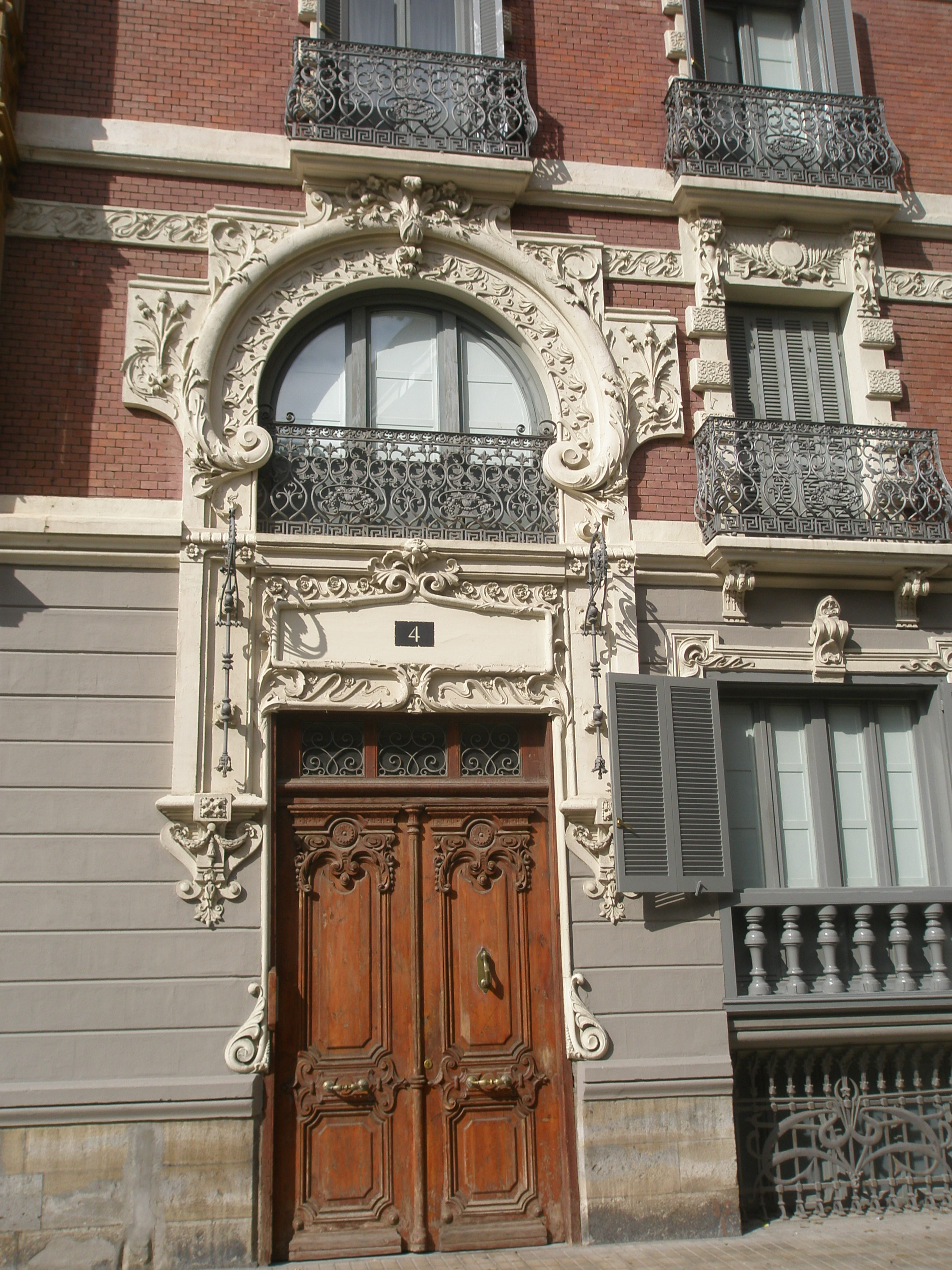 A beautiful door. Art noveau. In Iruñea (Pamplona)